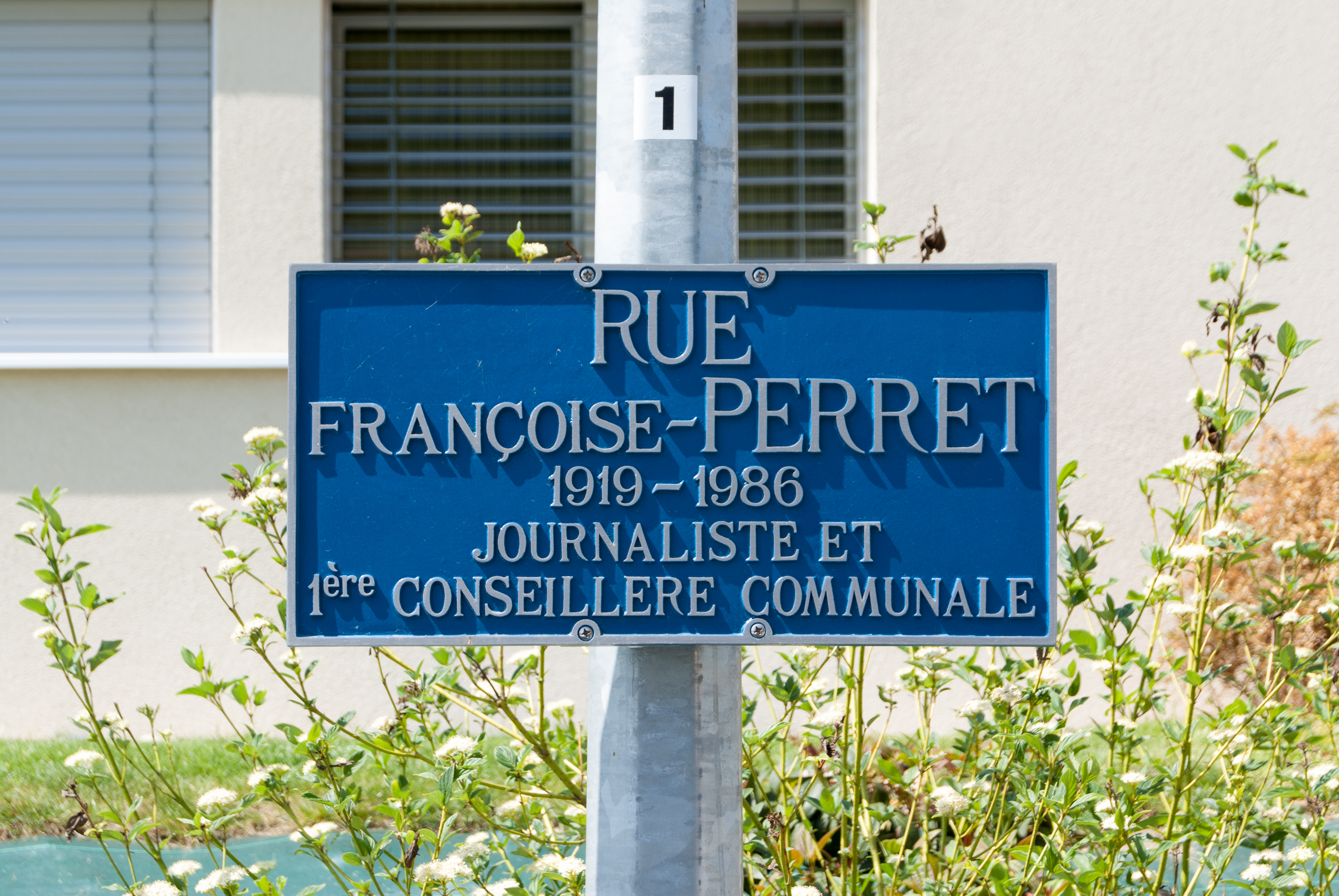 Street sign in Yverdon-les-Bains, Switzerland. Reads: "Rue Françoise-Perret 1919–1986 Journaliste et 1ère conseillère communale"